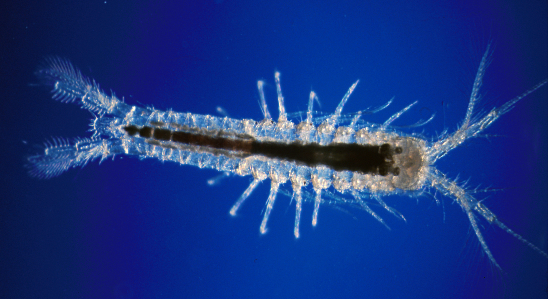 Mictocaris halope from inland marine caves in Bermuda. The only species of the peracarid crustacean order Mictacea.